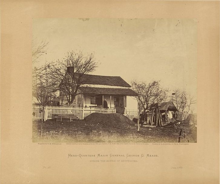 "Head-Quarters of Major-General George G. Meade during the Battle of Gettysburg", published in Gardner's Photographic Sketchbook of the War. Full description here.